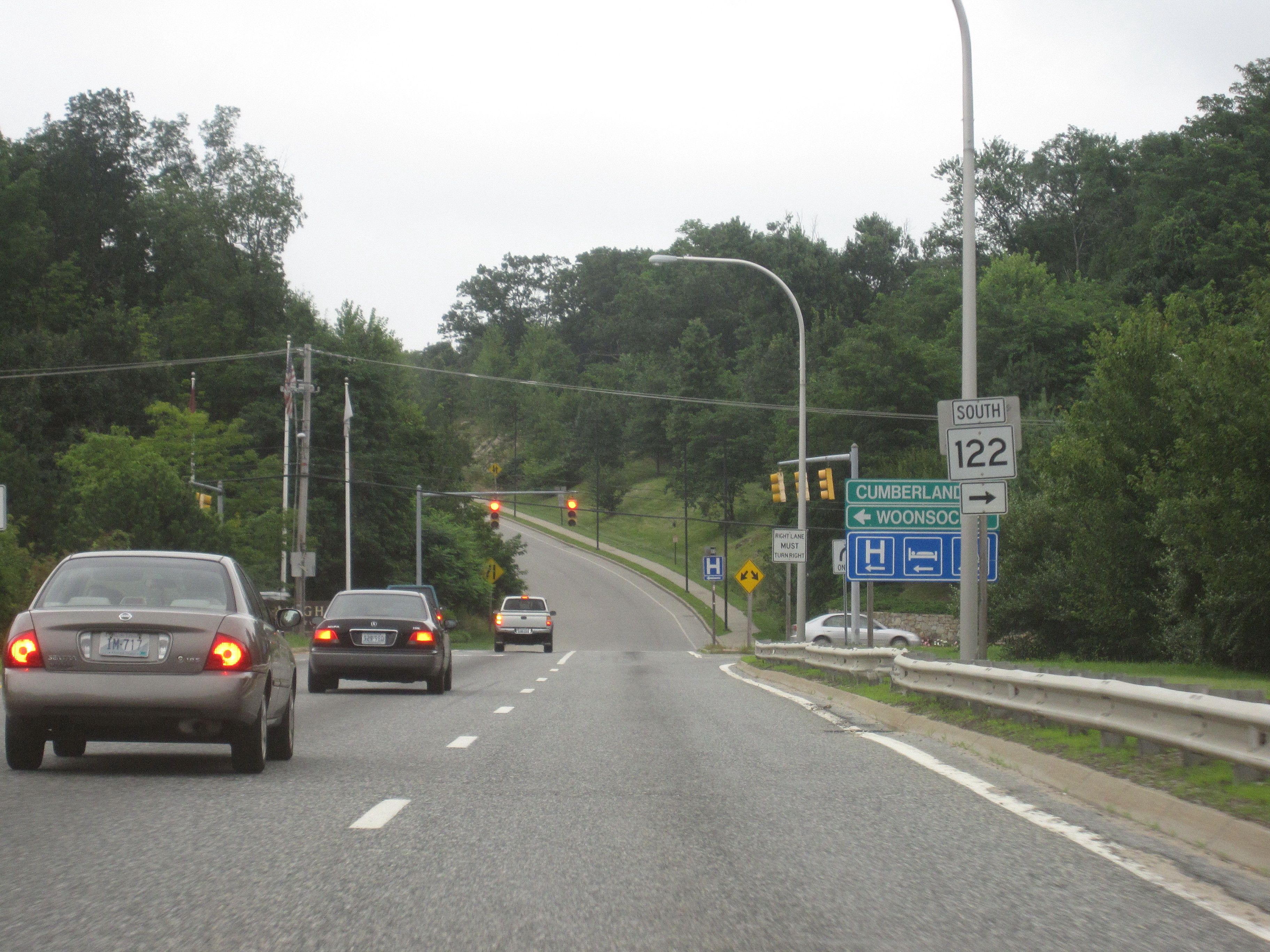 Northern terminus of Rhode Island Route 99 in Woonsocket, RI